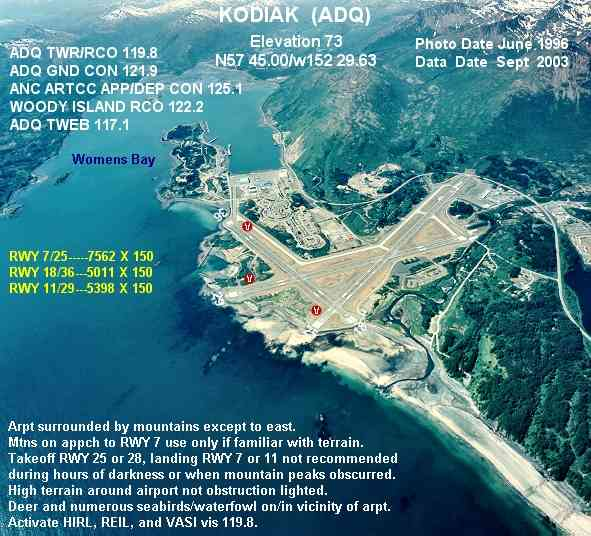 Annotated aerial photograph of Kodiak Airport (ADQ) in Kodiak, Alaska, United States.